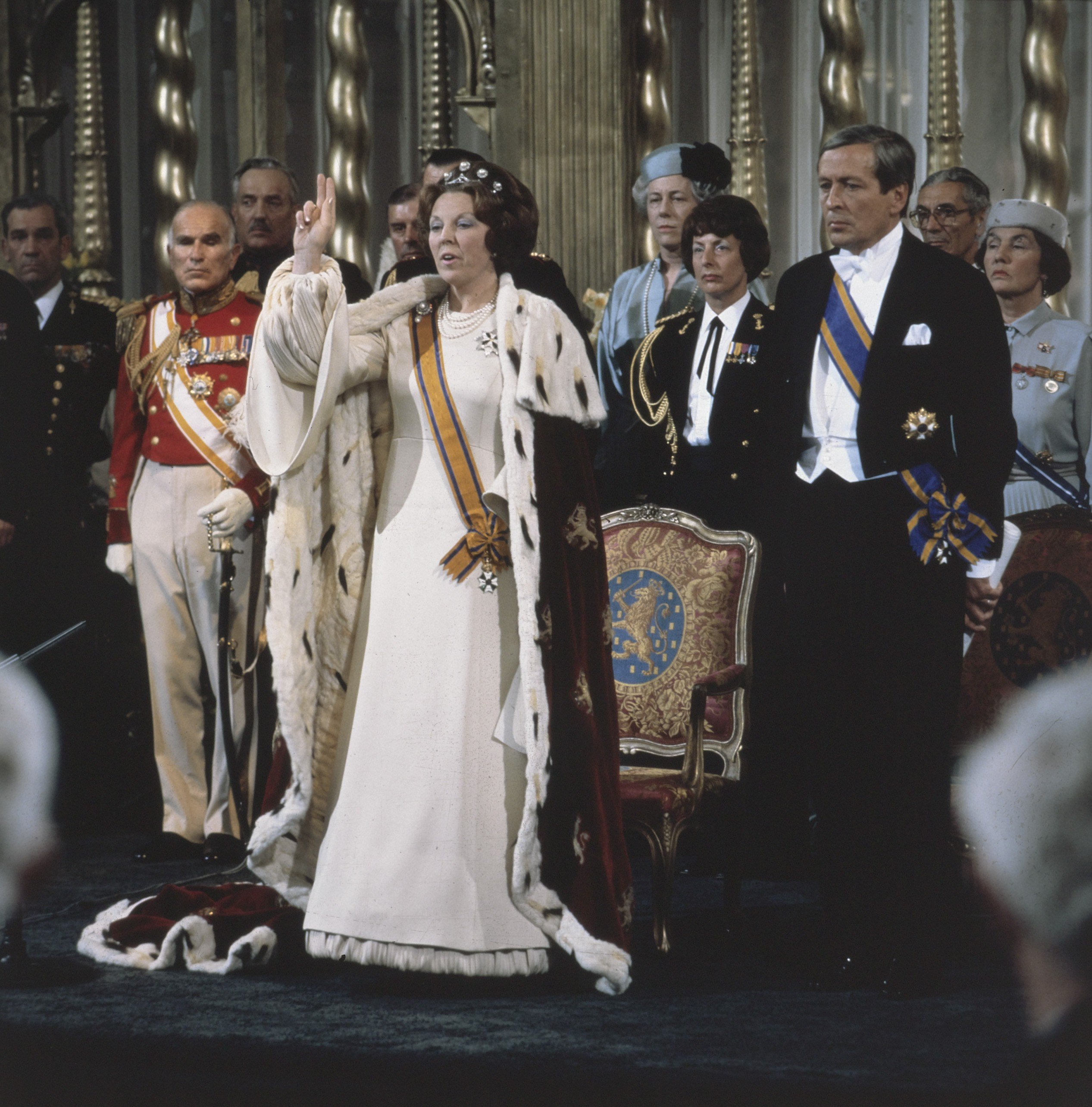 Inauguration of Queen Beatrix of the Netherlands. Swearing of the oath.